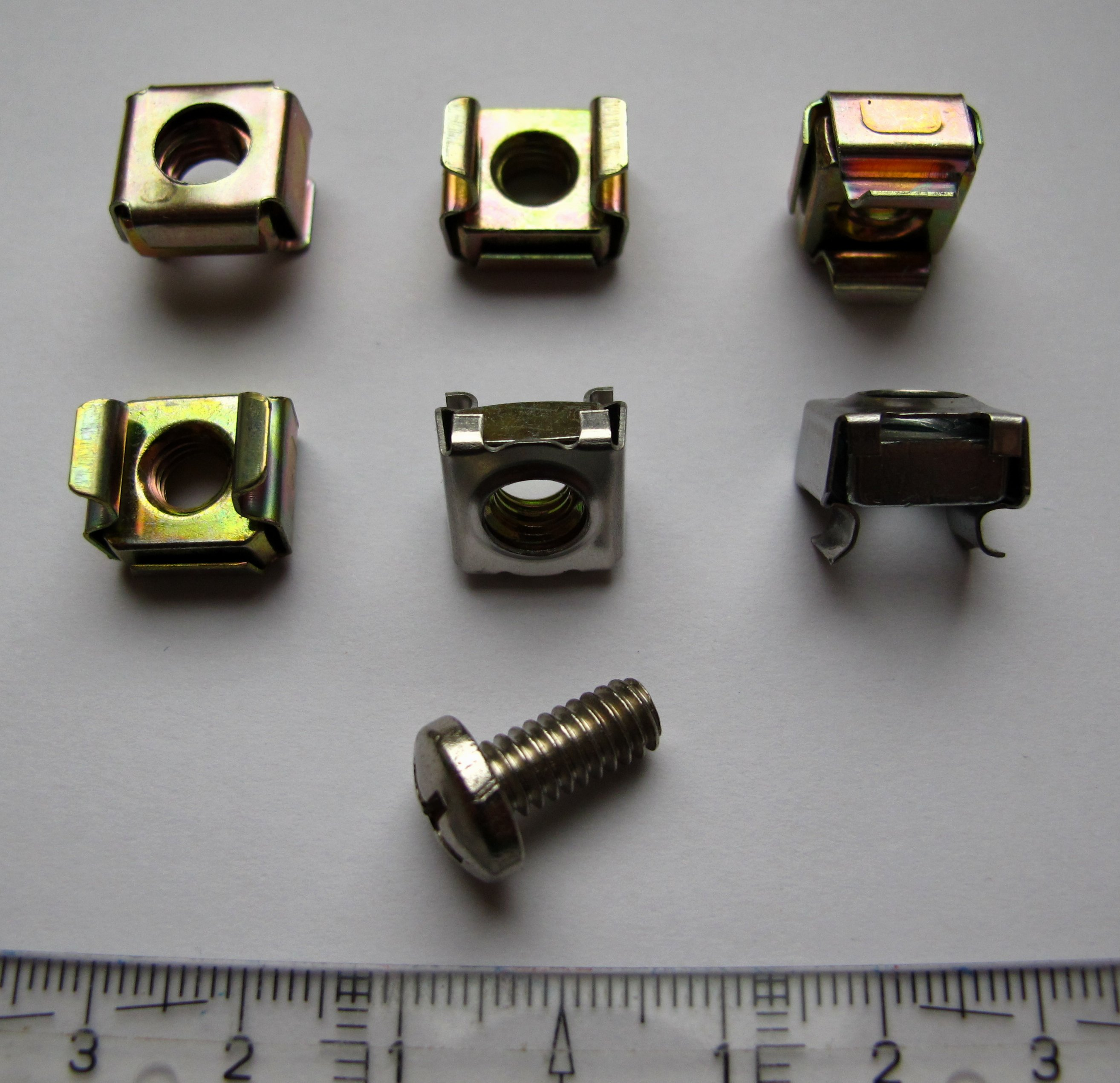 cage nut